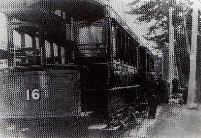 Train of Odawara Electric Railways stopping in Kozu beach